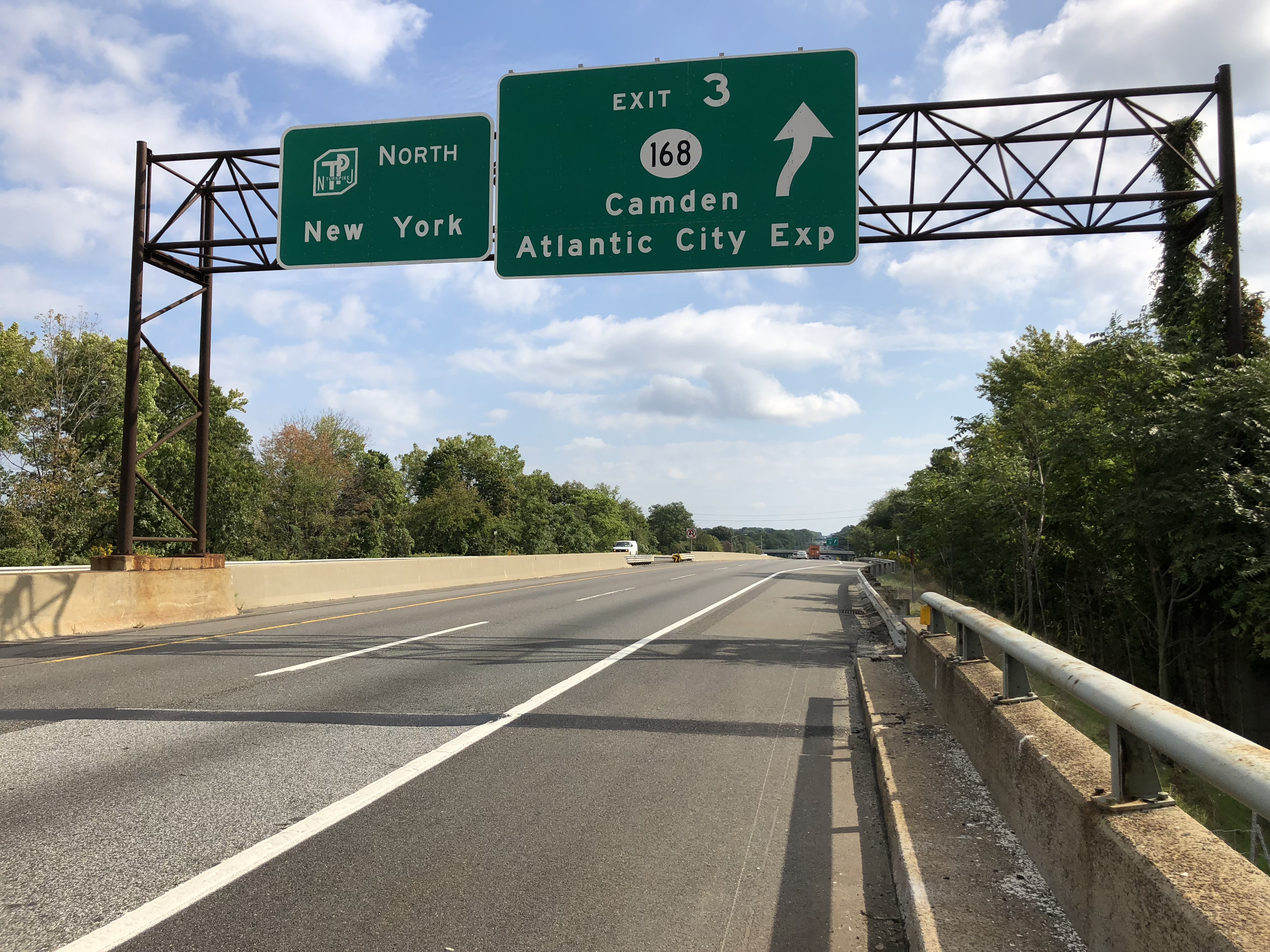 View north along New Jersey State Route 700 (New Jersey Turnpike) at Exit 3 (New Jersey State Route 168, Camden, Atlantic City Expressway) in Runnemede, Camden County, New Jersey